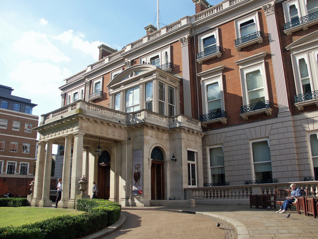 Front entrance to the Wallace Collection, Manchester Square Lord Hertford was an extremely wealthy collector of (mainly) French art and artifacts, with an eye for exquisite quality. His collection - which legally can neither be sold nor added to - is one of the finest in the land and is equaled only by similar collections in Paris itself. The open courtyard at the rear has recently been fitted with a magnificent glass roof to form a weather-proof enclosure housing a restaurant and 'tea room'.